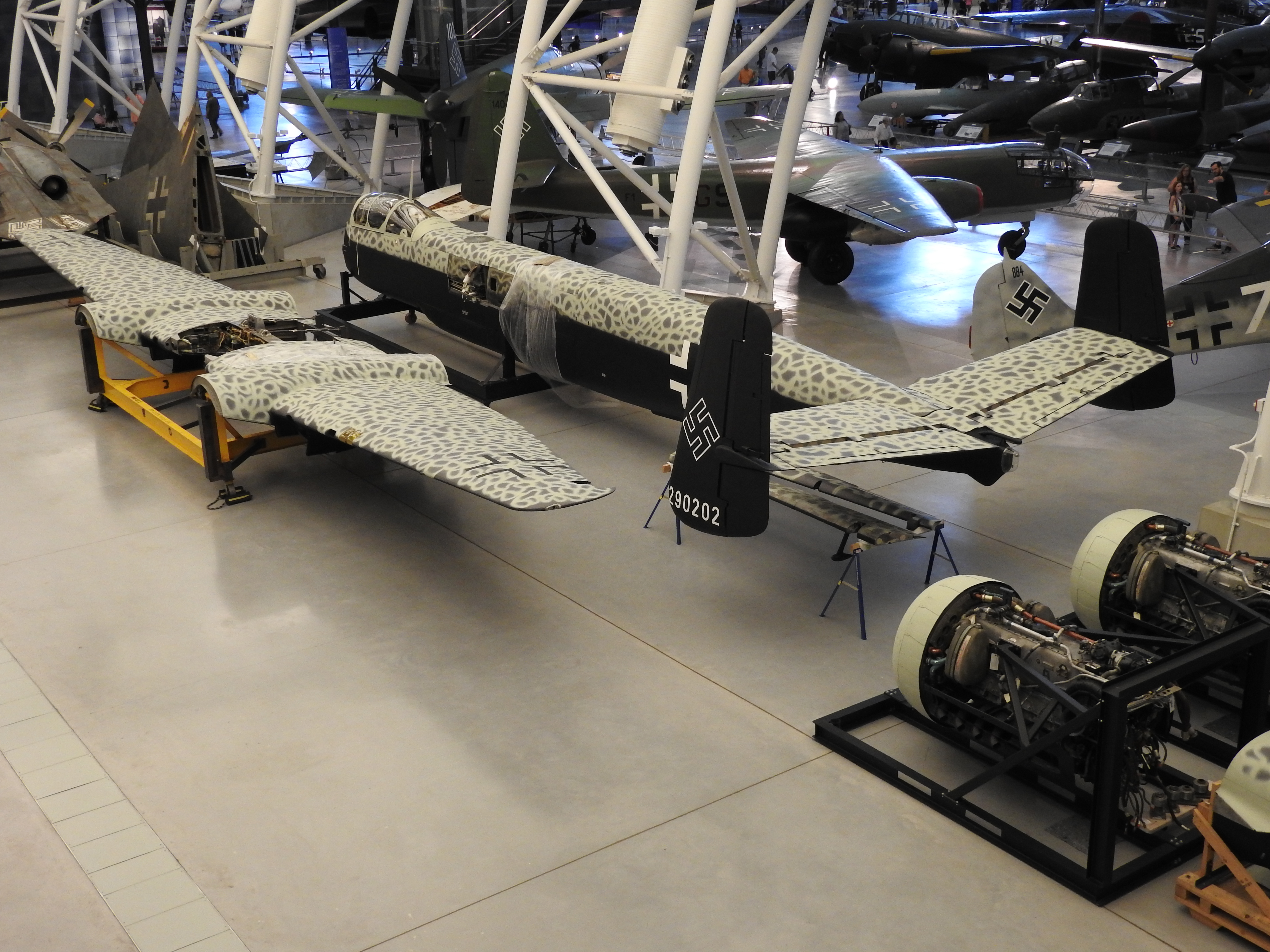 Heinkel He 219 A-2 fuselage with wings and powerplants